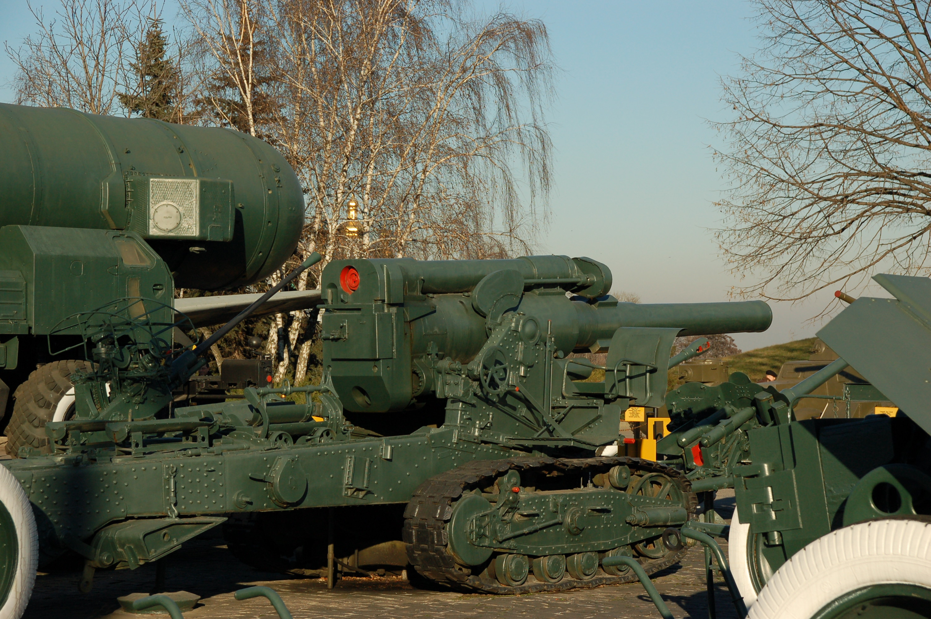 The National Museum of the History of the Great Patriotic War (Second World War) Artillery at the exhibition of soviet weaponry at the National Museum of the History of the Great Patriotic War (Second World War)